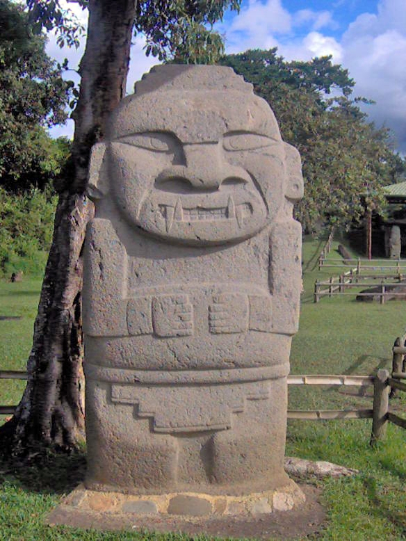 Statue of the San Agustín indian cult in Colombia: A Jaguar man. Location: San Agustín Mesita A